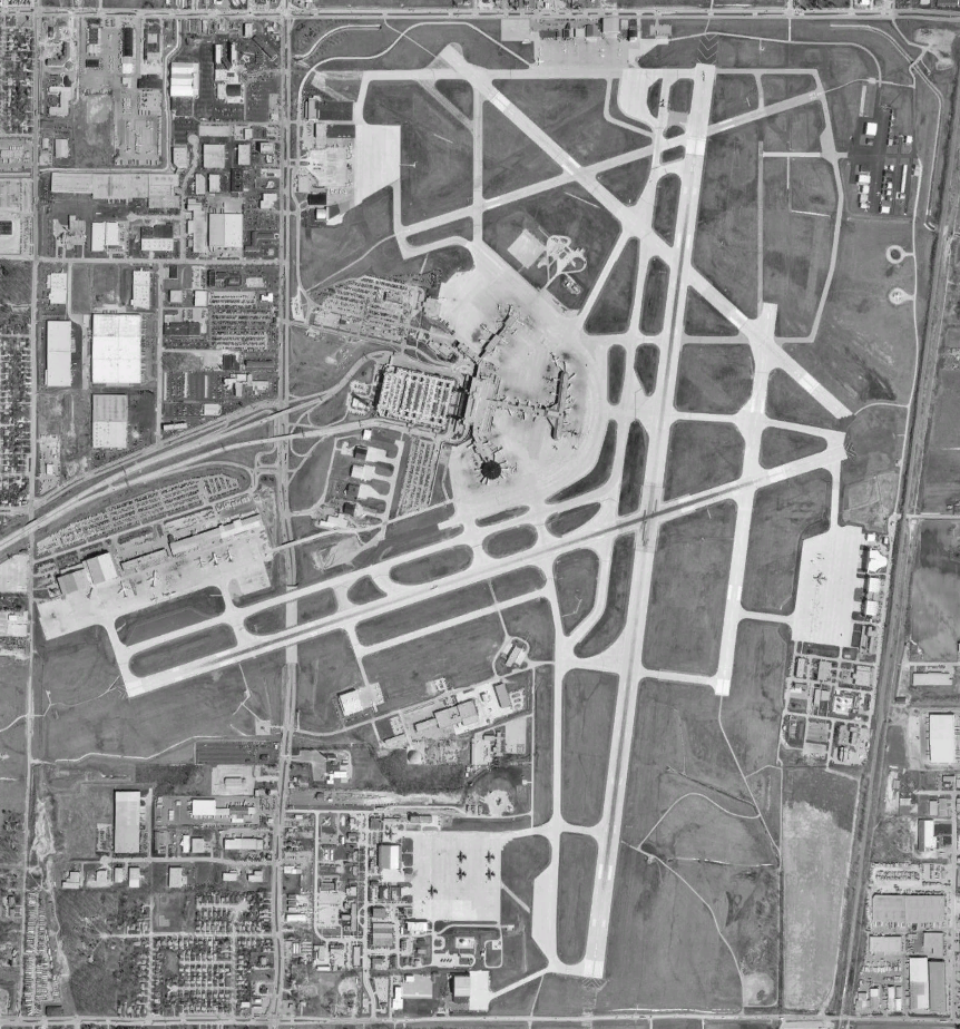 Satellite photograph of the General Mitchell International Airport, Milwaukee, Wisconsin, USA